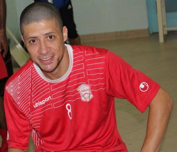 Rafael da Silva Nascimento posing for a picture in Muscat Club jersey. 19 September 2014 Muscat Club Dressing Room. Photographer email id